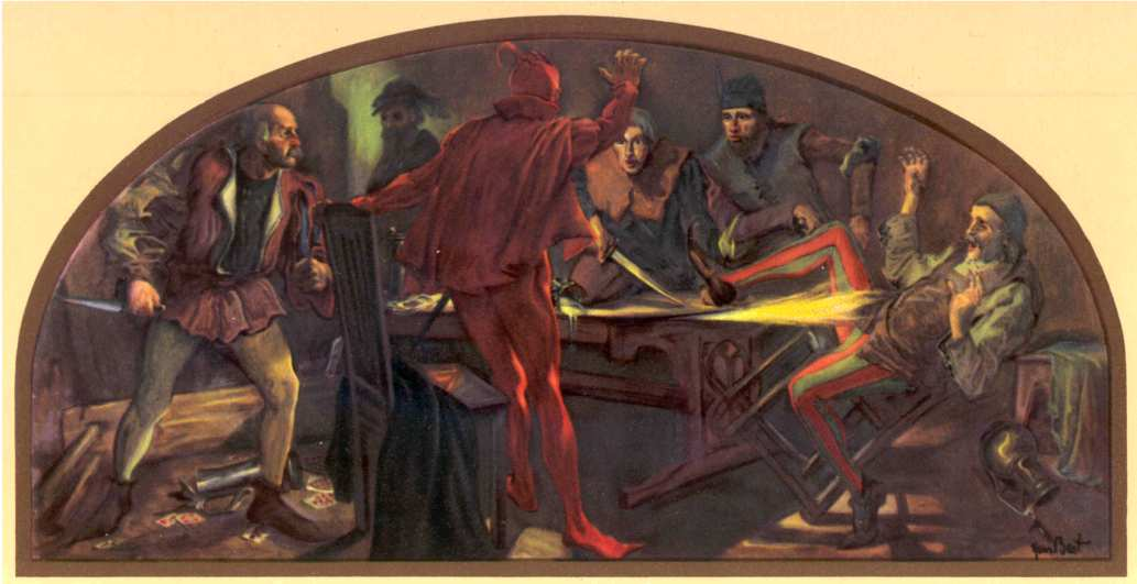 Falsch Gebild und Wort... - Illustration of Goethe's "Faust", mural in Auerbachs Keller, Leipzig